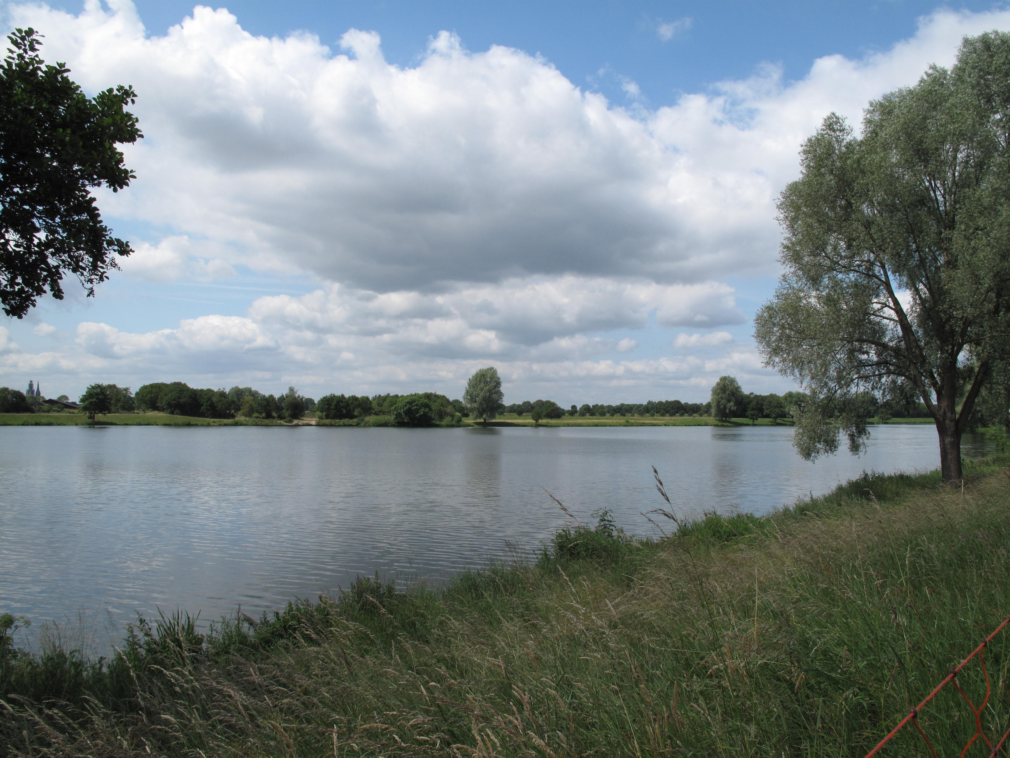 Mookerplas, panorama